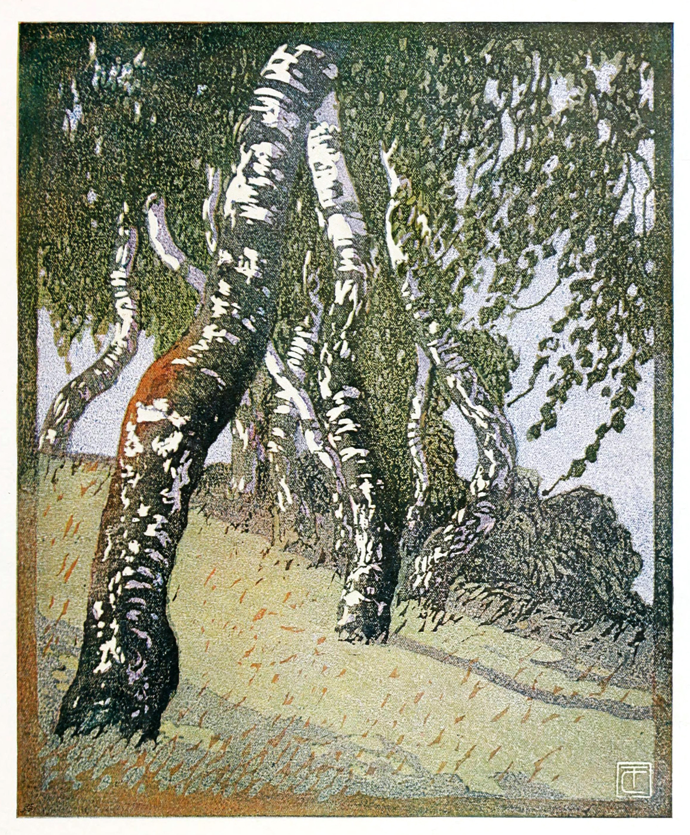 Birches, from an original wood engraving in colors by Carl Thiemann